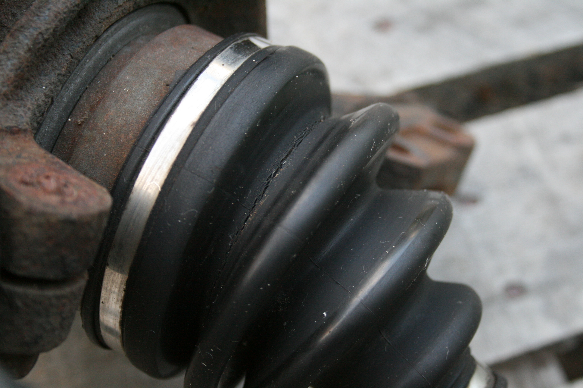 Cracked rubber boot on an axle from a 1990 Geo Storm Gsi.